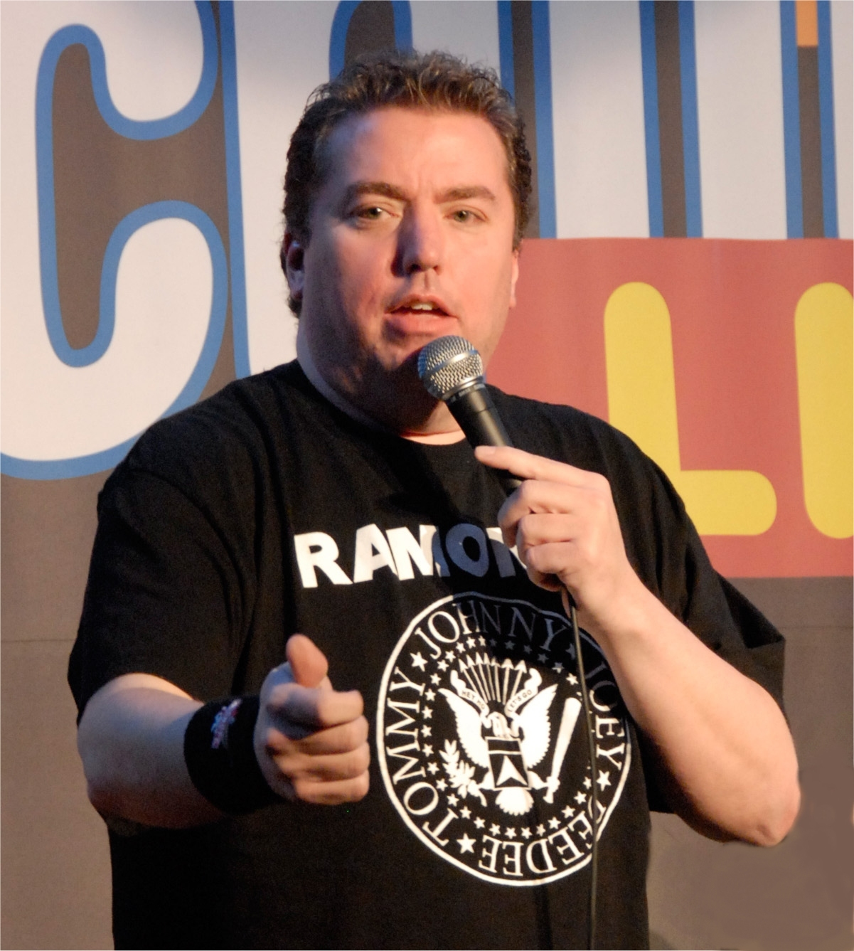 Photo of Swedish comedian Sven Brundin